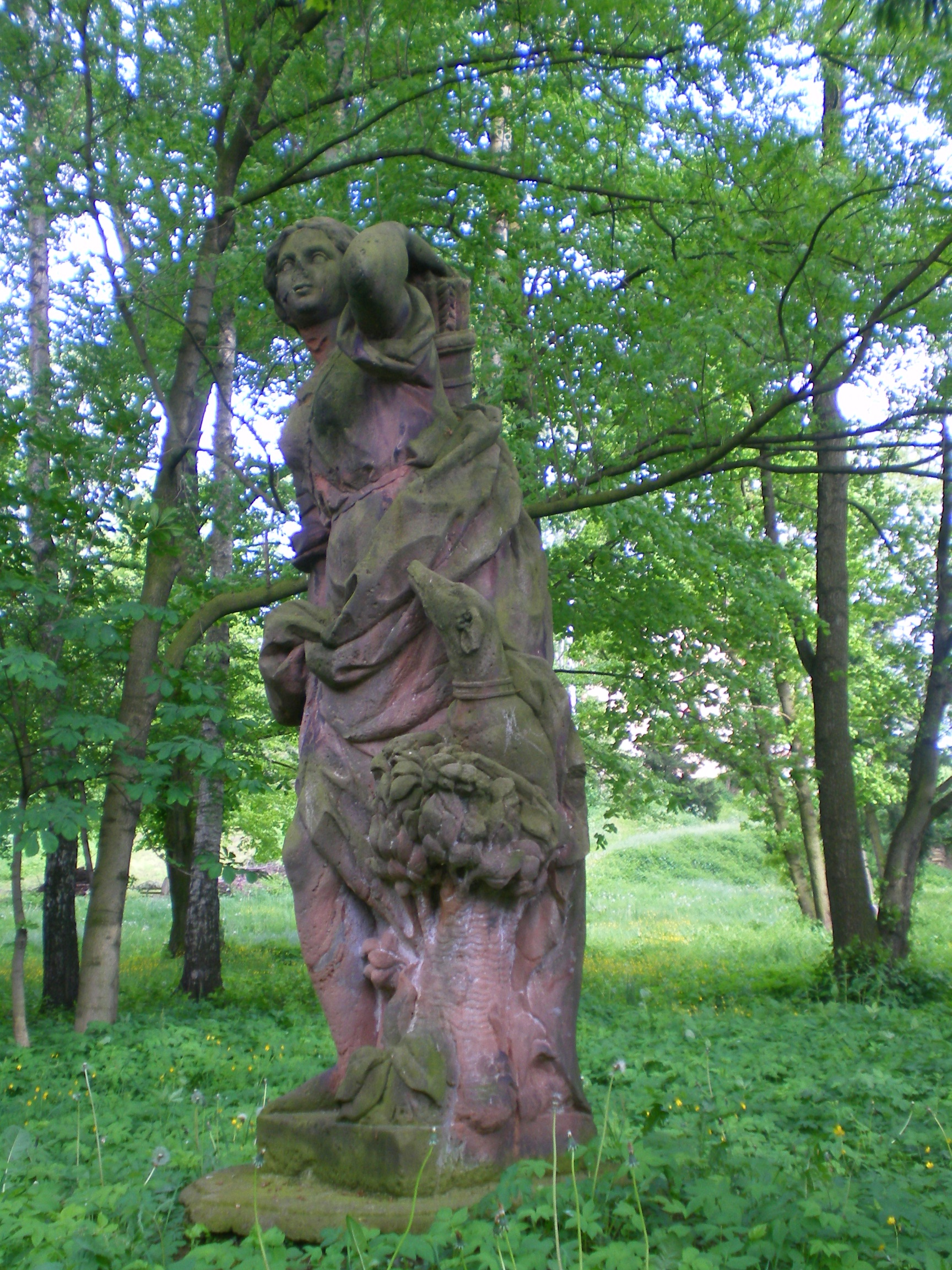 Statue of Diana in parque of Schmölln-Selka near Gera/Thuringa in district of Altenburger Land